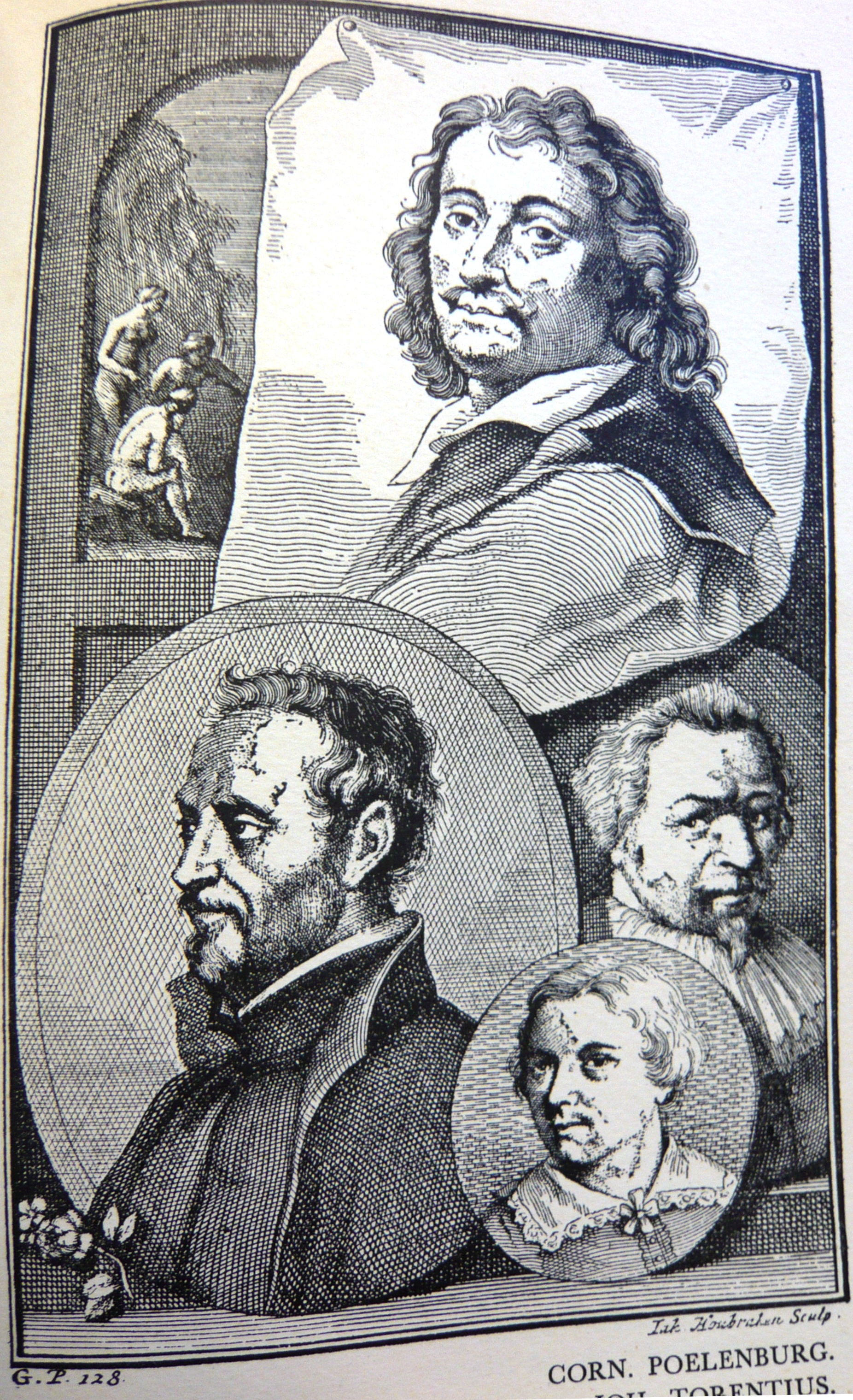 Schouburg Part 1 Plate G with Cornelis Poelenburgh, Daniel Seghers, Johannes Torentius, and Pieter de Valck, Page 128 of Part 1 of Arnold Houbraken's Schouburg from 1718